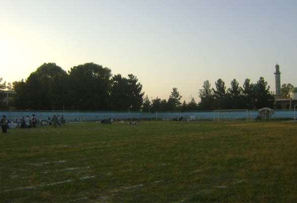 A football field in Lashkar Gah, Afghanistan